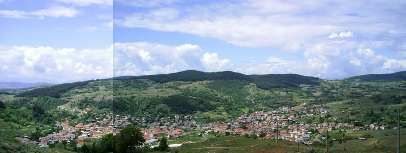 Panoramic view of the village of Kochan